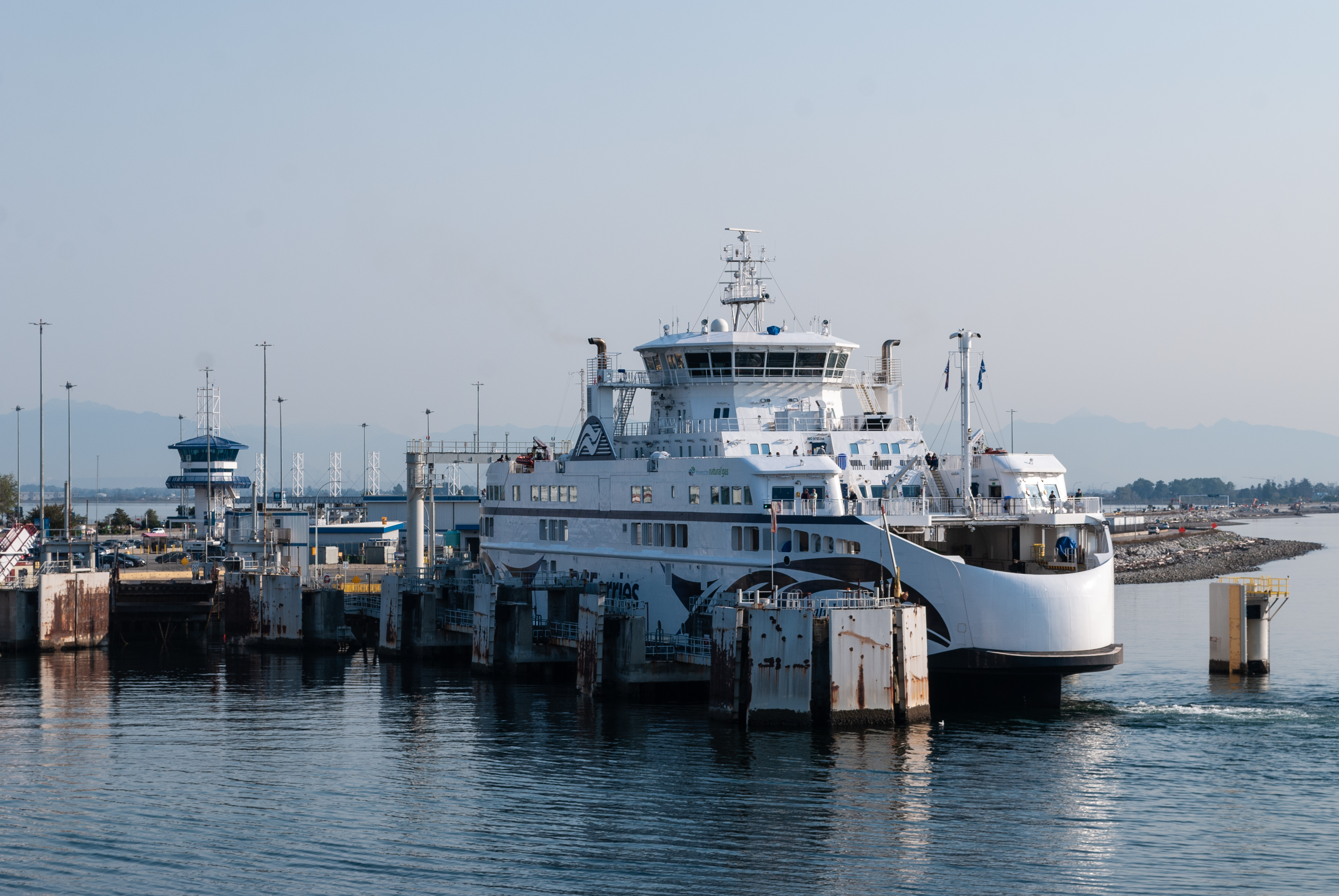 Ro-ro ferry, Salish Raven - IMO 9750294, loading foot and car passengers at the BC Ferries Tsawwassen Terminal on August 28, 2018, prior to sailing to Galiano Island and Swartz Bay.